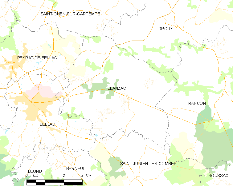 Map of French municipality Blanzac